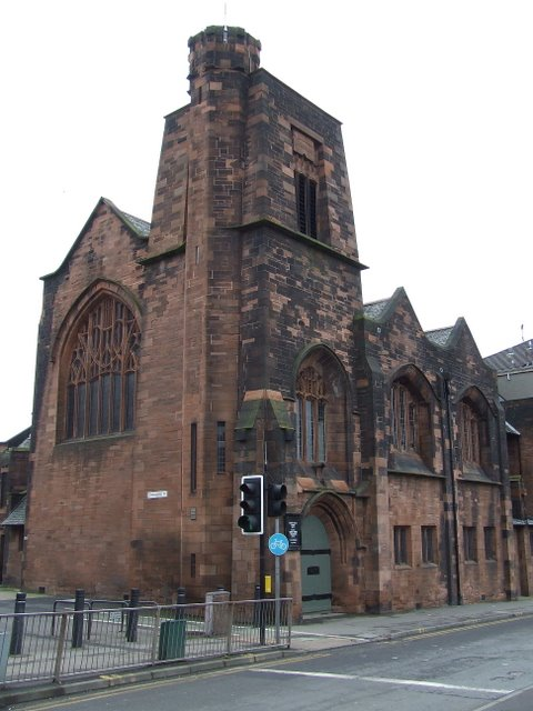 Queens Cross Church The only Charles Rennie Mackintosh church in the world, now the headquarters of the CRM society. See this for more details.